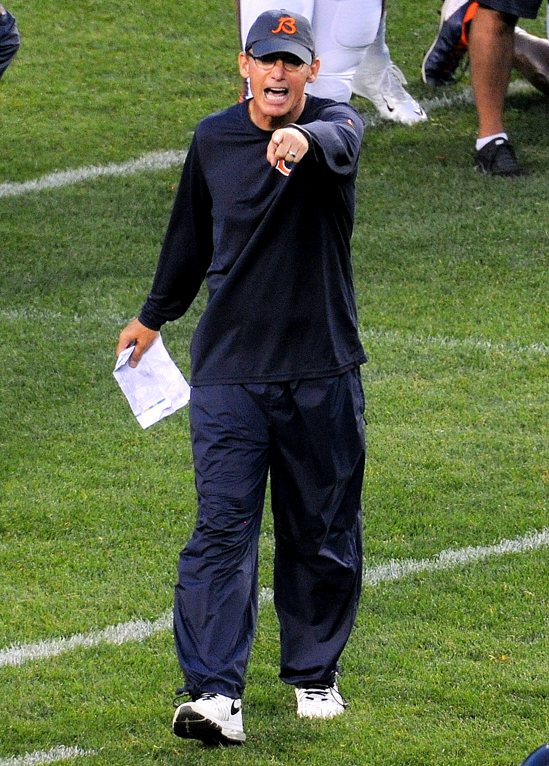 Head Coach Marc Trestman at Chicago Bears training camp in 2014.